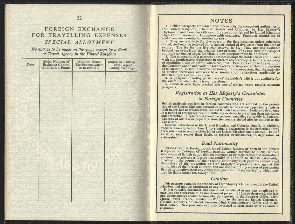 British Passport 1961, Foreign Exchange for Travelling Expenses Special Allotment page with 'Exchange Control Act 1947' notation